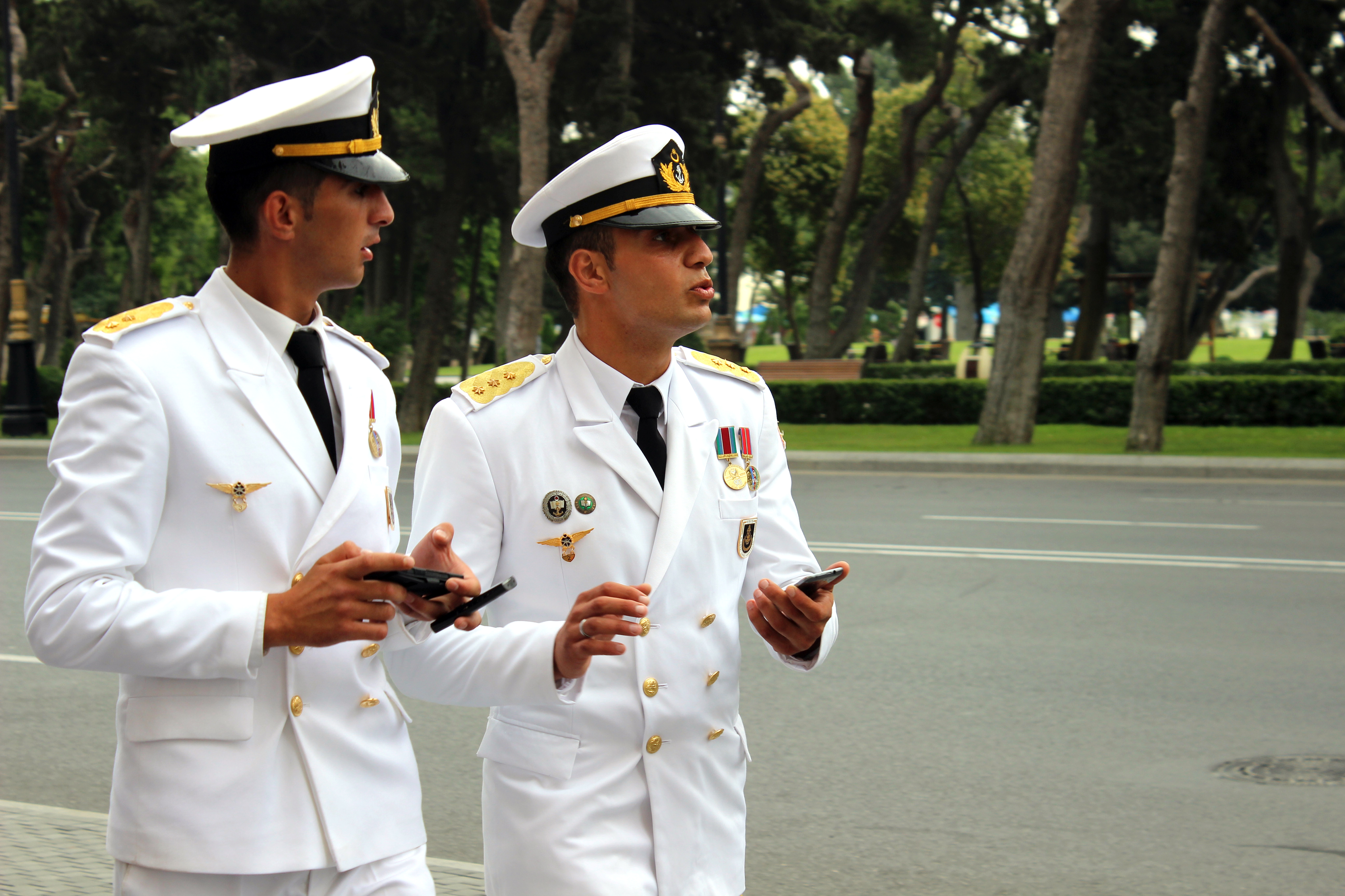 Military parade in Baku 2013